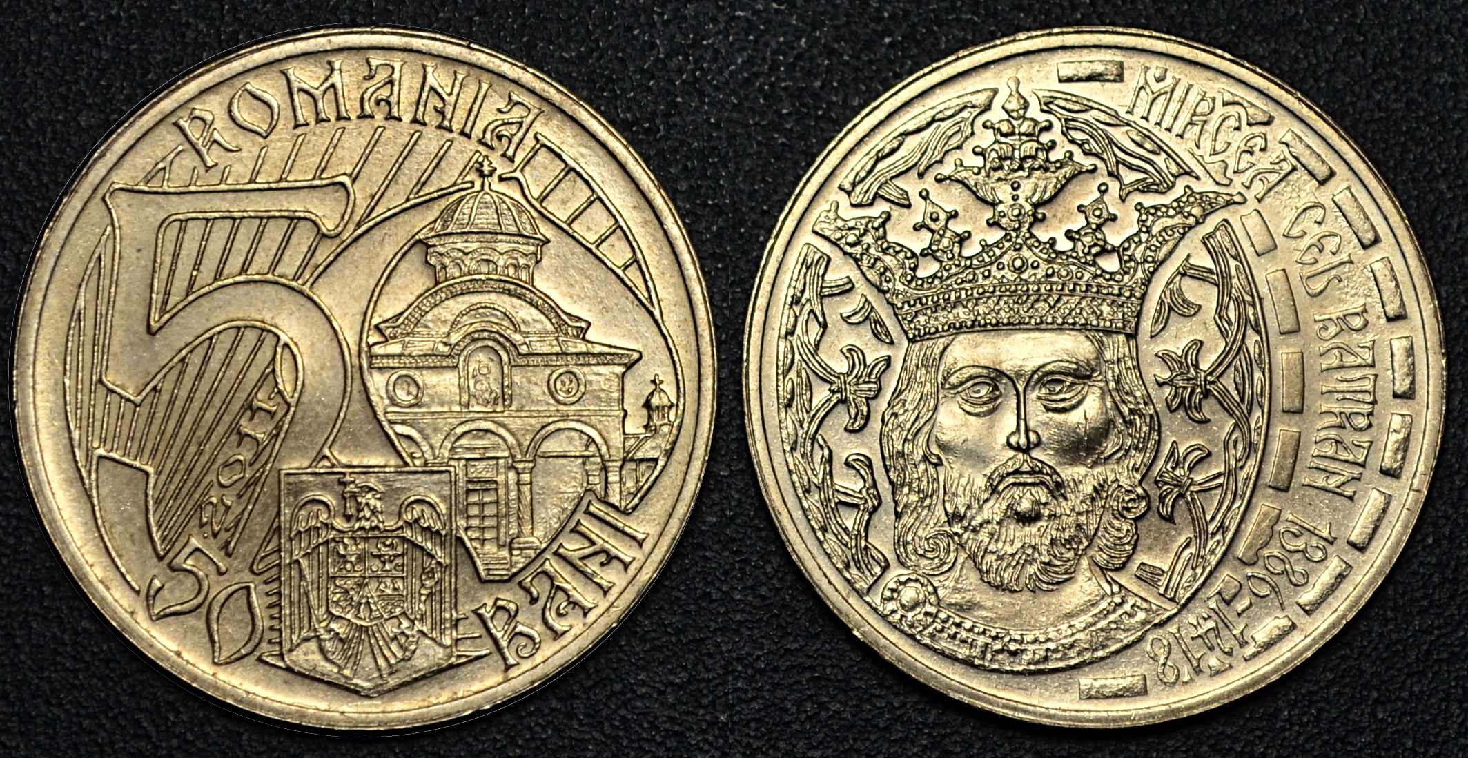 Commemorative 0,50 RON coin with Mircea Cel Bătrân